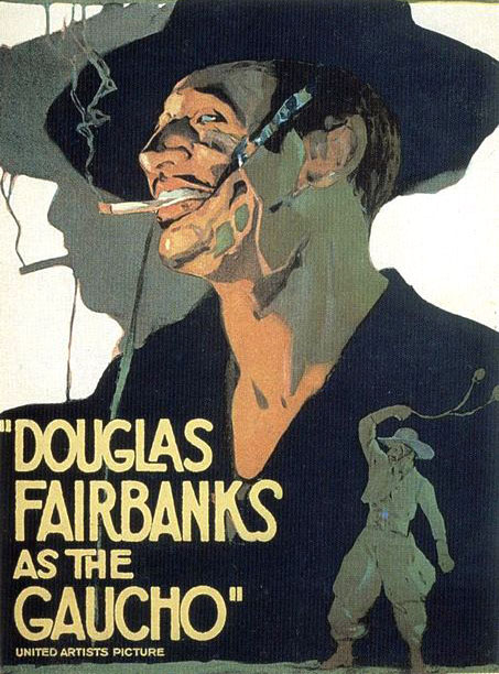 Poster from the 1927 movie The Gaucho. The item has no copyright markings on it as can be seen in the links above. The link to the larger copy shows that the top of the poster was able to be personalized for the theater that was showing the film. At bottom of the larger copy is "Made in USA by the W. C. Miner Litho Co. 28128".